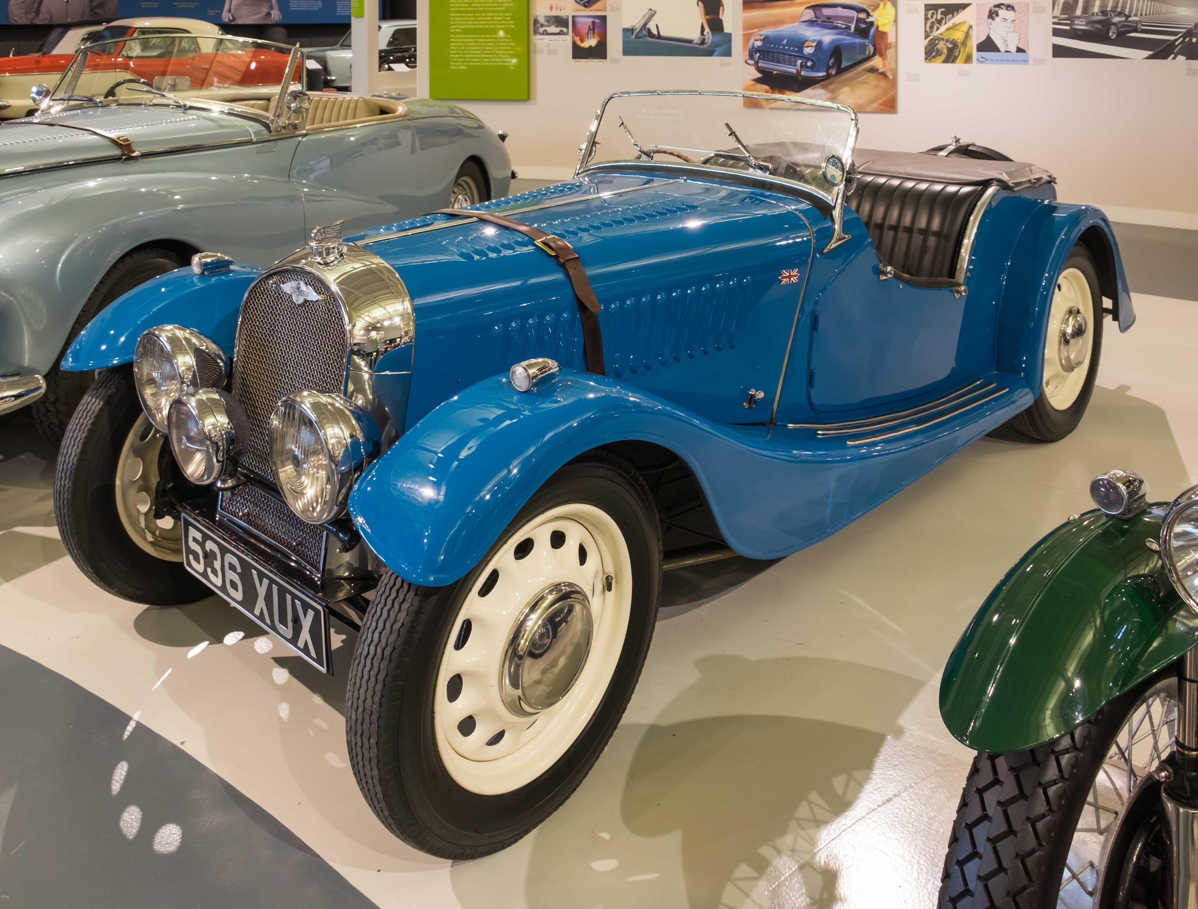 A 1939 Morgan 4/4. This car, with registration mark 536 XUX, is now kept at the British Motor Museum, Gaydon, UK.